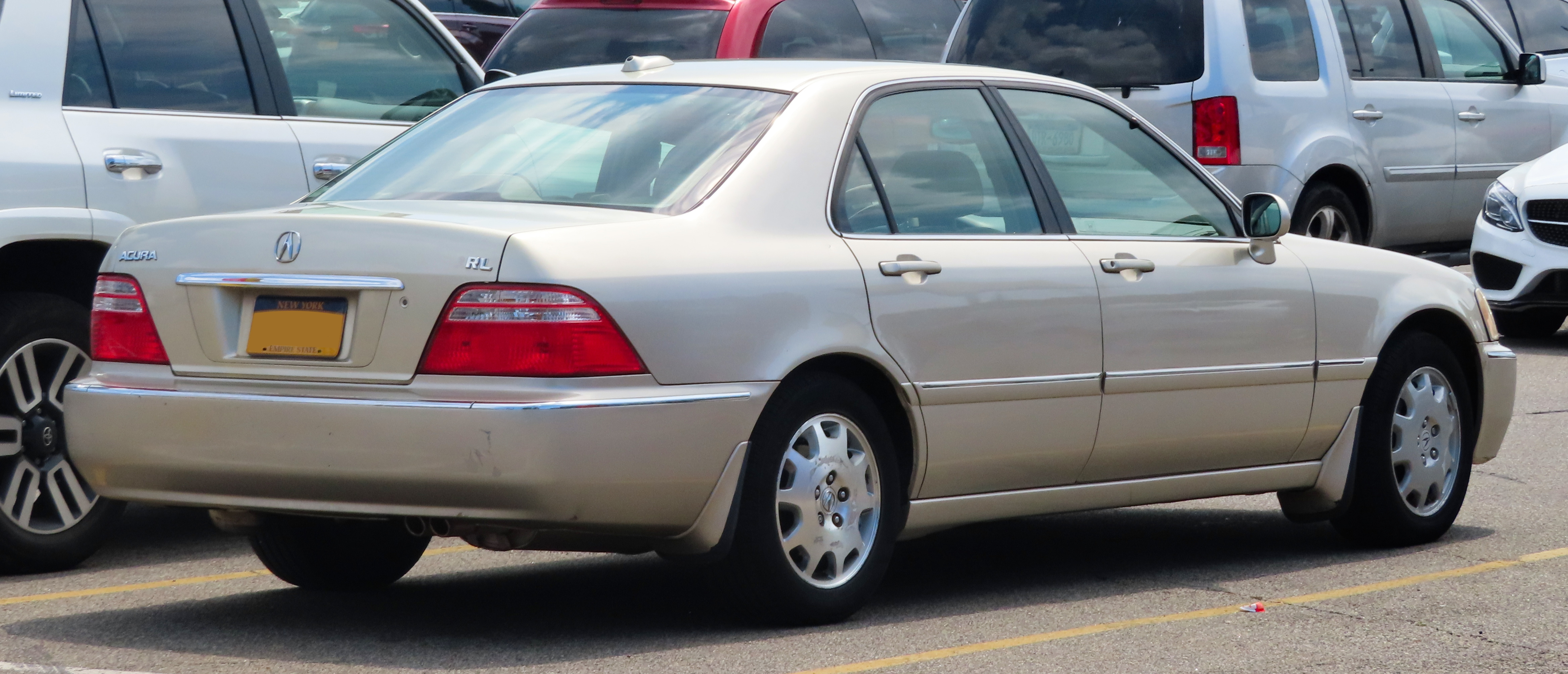 A 2004 Acura 3.5RL photographed in Flushing, Queens, New York, USA